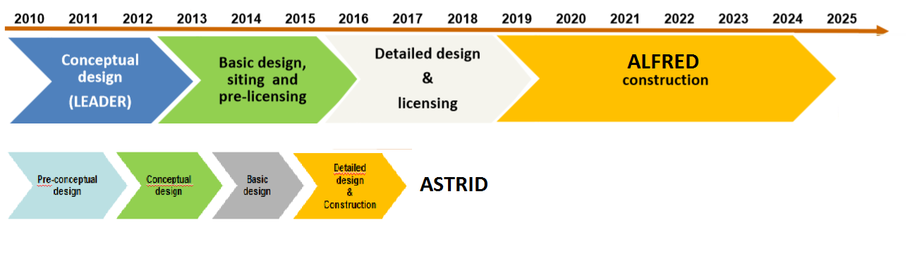 roadmap stated on June 2013 for the contruction of the nuclear reactor ALFRED in Pitesti (Romania) site